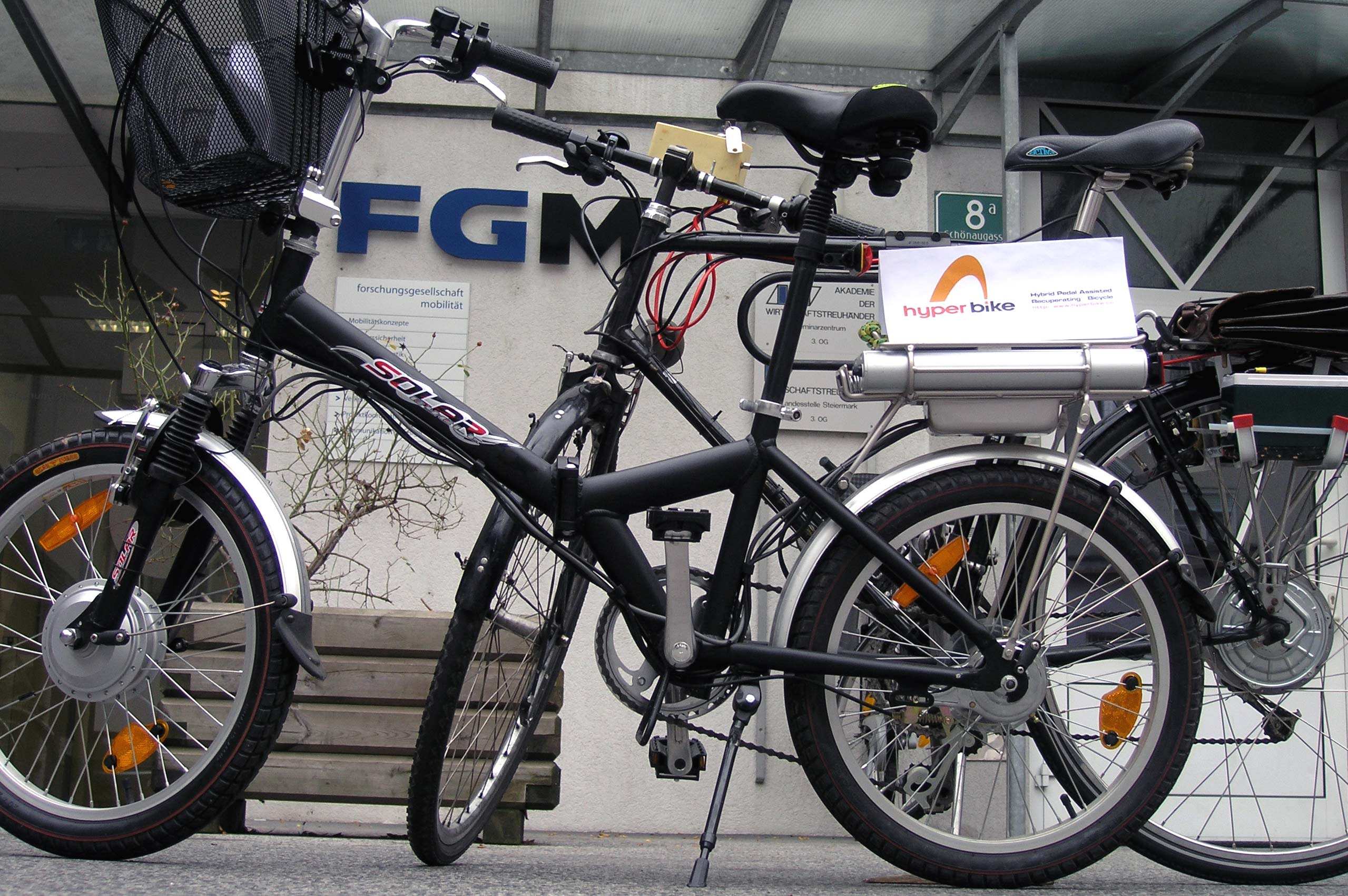 Hub motor own foto